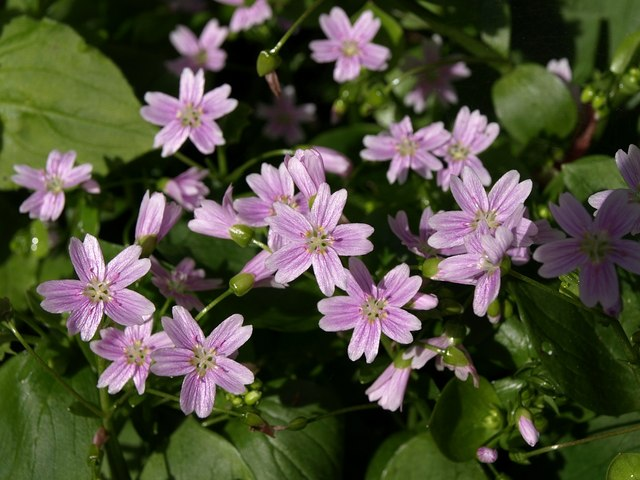 Pink purslane near Doccombe Cross Claytonia sibirica - or C. alsinoides - growing, in a big bankful, by Moretonhampstead Bridleway 33 a little before it reaches Doccombe Cross.